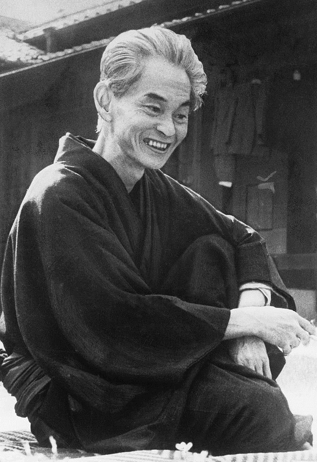 LG17 1968 Wire Photo YASUNARI KAWABATA Nobel Prize Literature Japanese Treasure